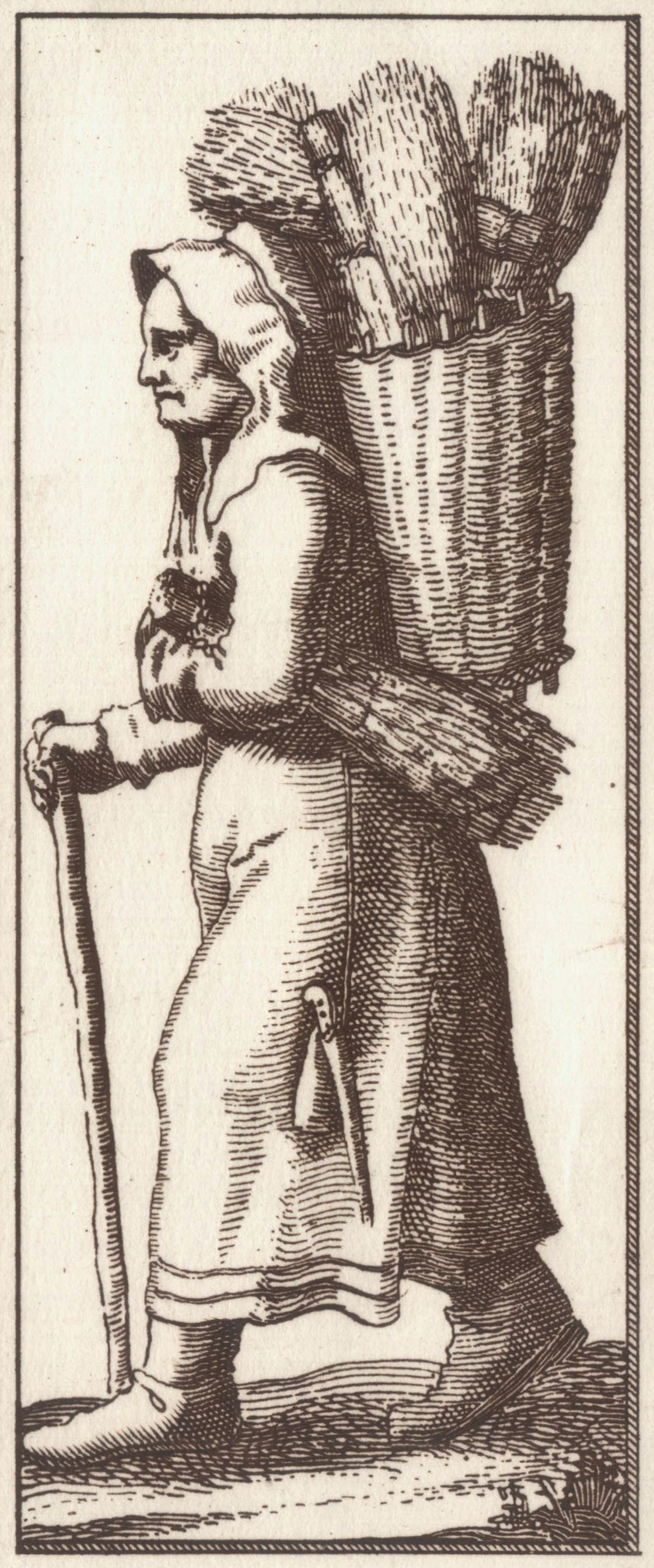 "Rustica Parisii villageoise du Parisis" on the map of Paris by Claes Jansz. Visscher.